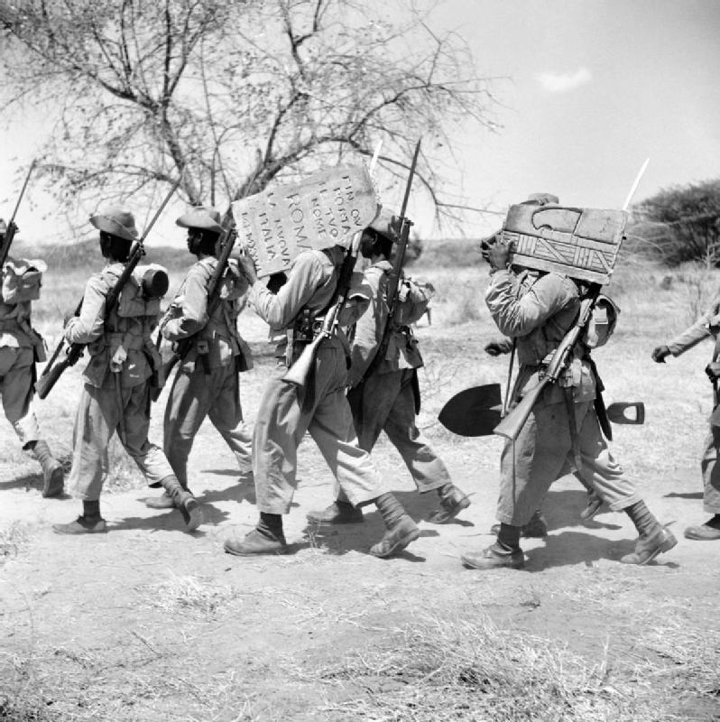 The West African Frontier Force in East Africa, 1941 Men of the West African Frontier Force (WAFF) remove monumental stones placed by the Italians to mark the boundary of their new empire on the Kenya - Italian Somaliland border.